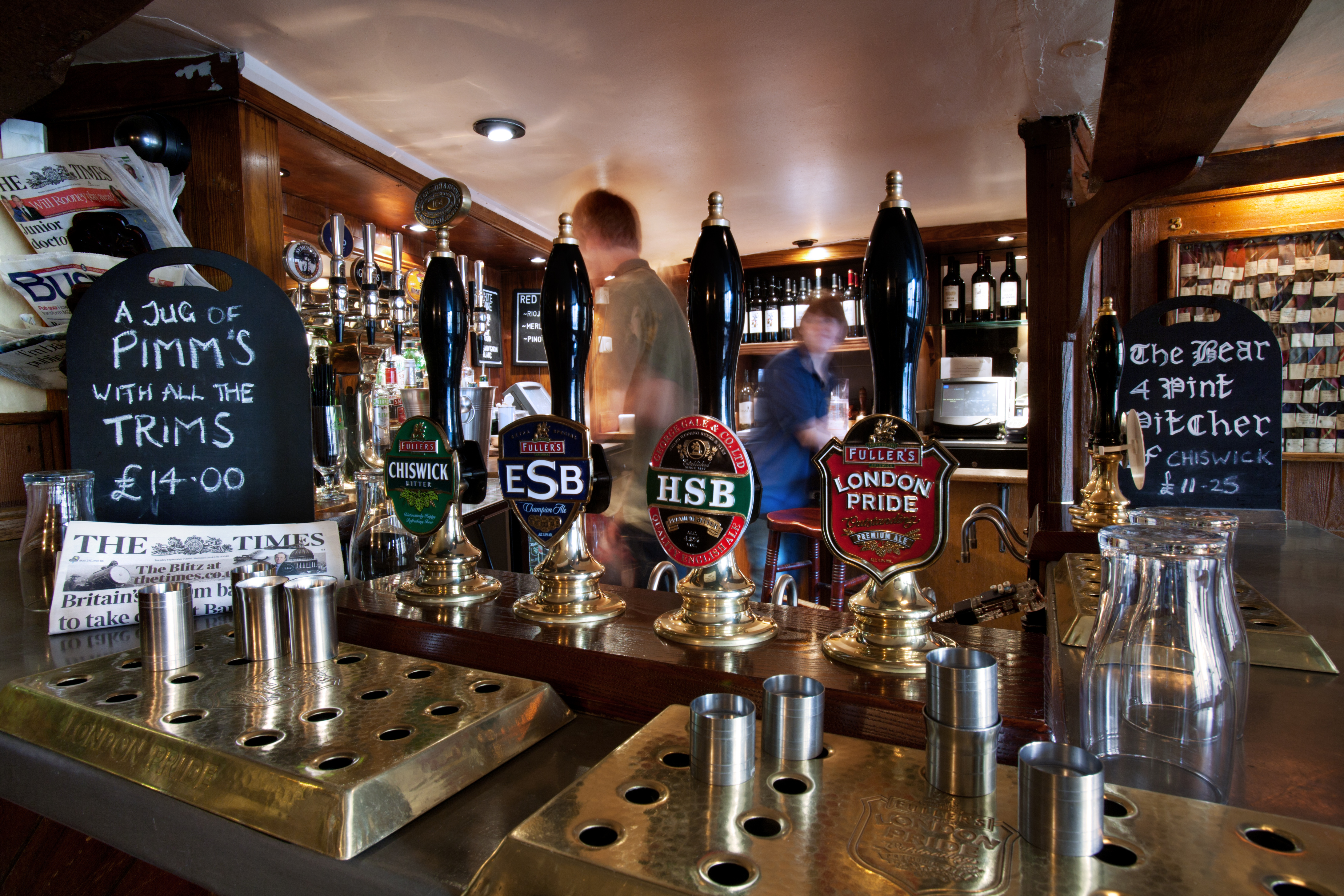 Inside the Bear Inn, Alfred Street, Oxford, England